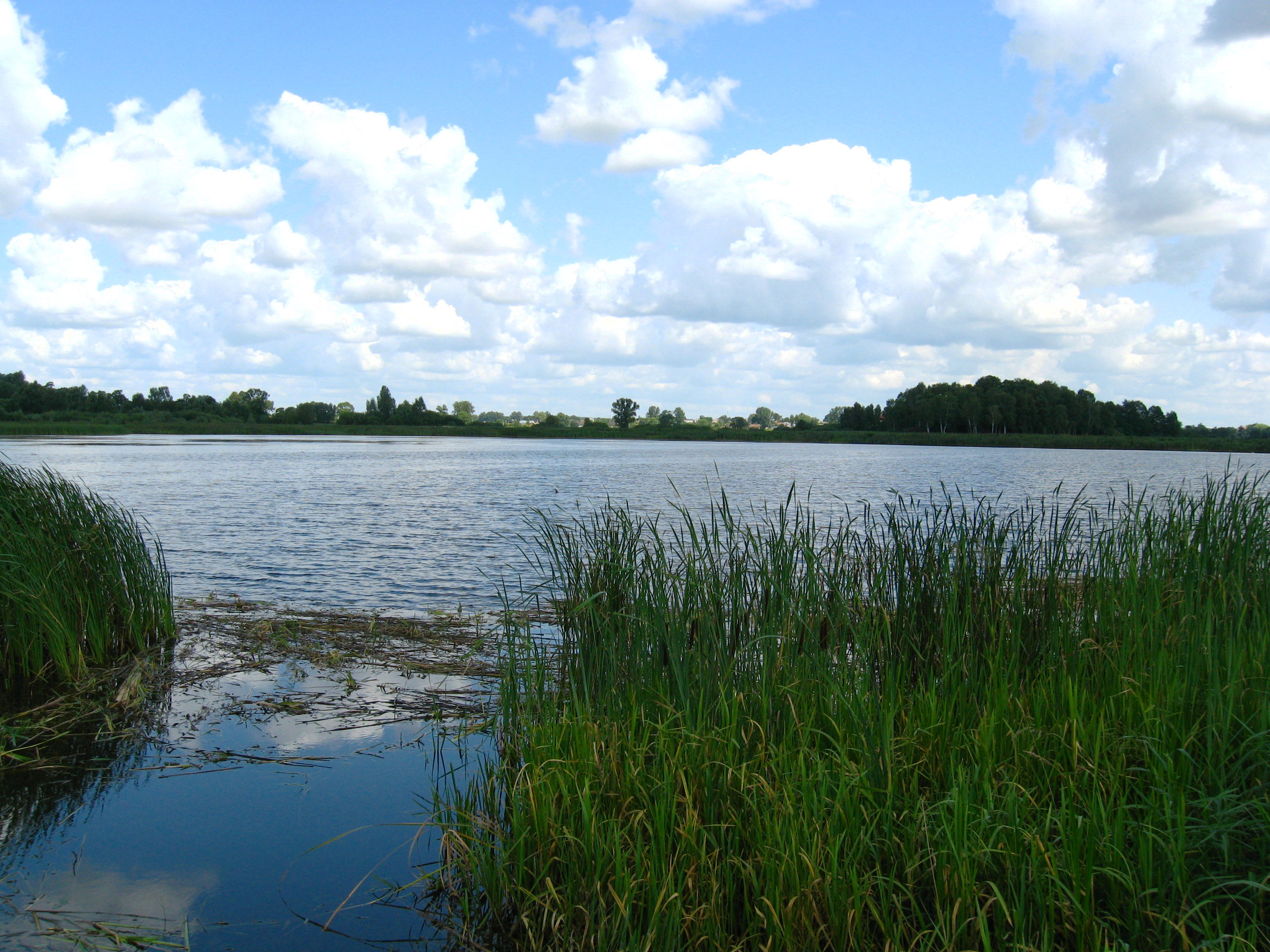 Gryszyska ponds at Knyszyn-Zamek